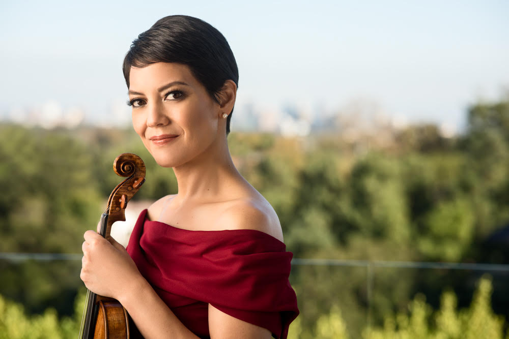 Violinist Anne Akiko Meyers in California in November 2017. Photo taken by David Zentz.